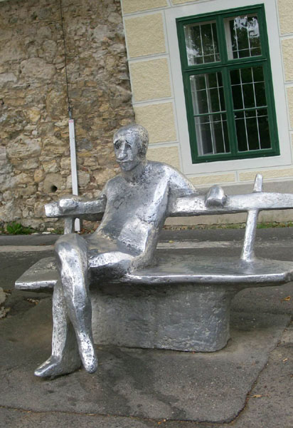 Monument to Antun Gustav Matoš